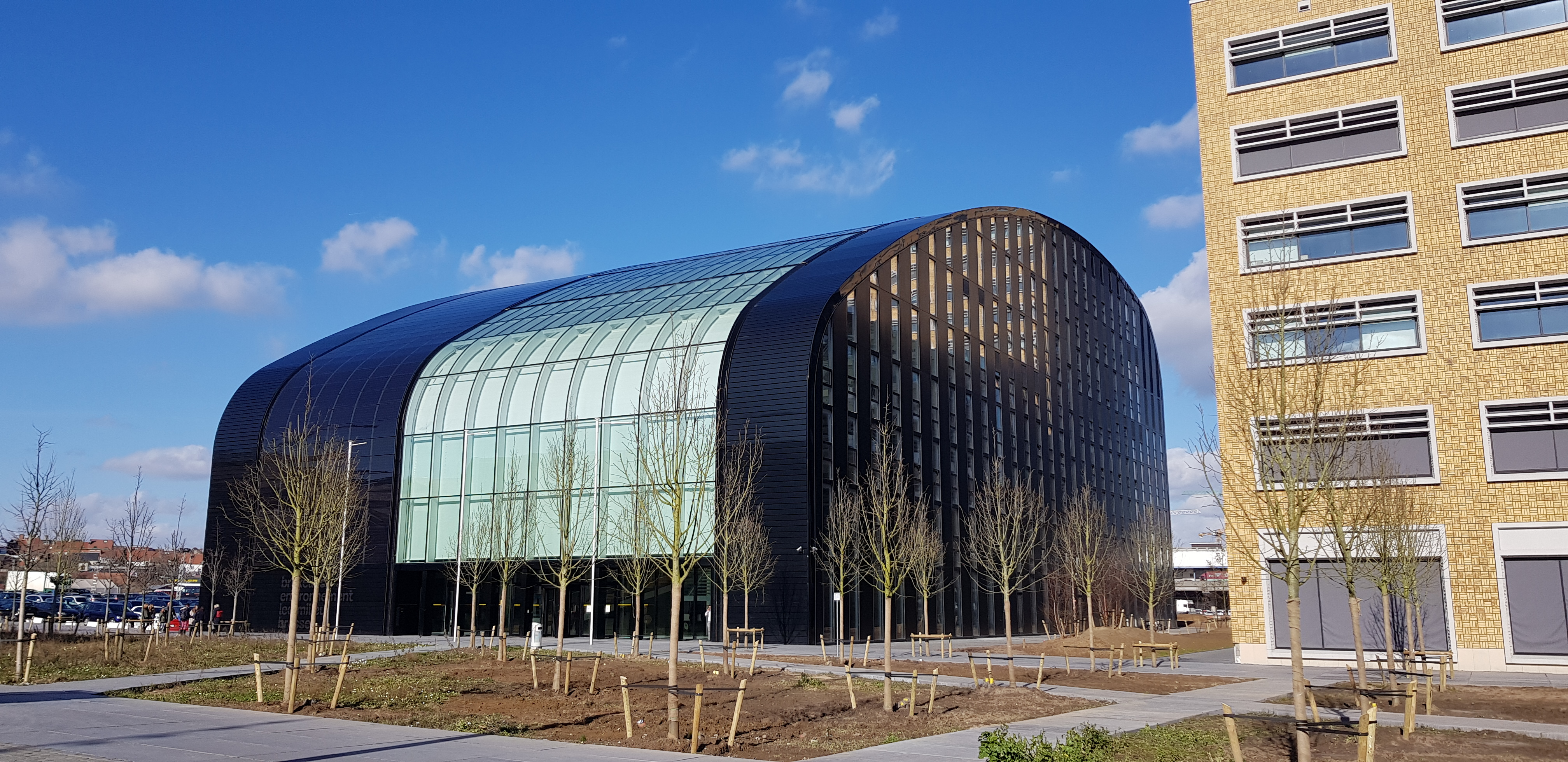 Brussels Environnement building, Tour & Taxis, Brussels, Belgium